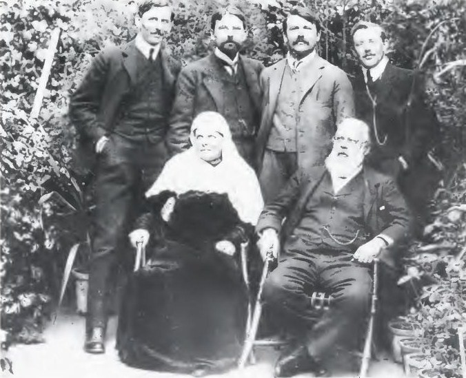 Anton Dohrn and his family. Standing, left to right: Reinhard (1880-1962), Boguslav (Bux) Dohrn (1875-1960), Wolf (1878-1914), and Harald (1885-1945) Dohrn. Sitting: Marie (née de Baranowska)( 1856-1918) and Anton (1840-1909) Dohrn. Naples, ca., 1905. (Dohrn Archives)